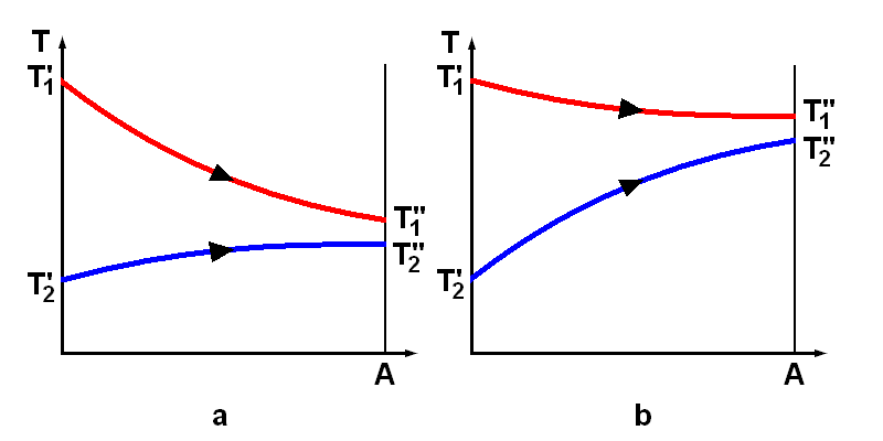 Temperatures in parallel flow in a heat exchanger.